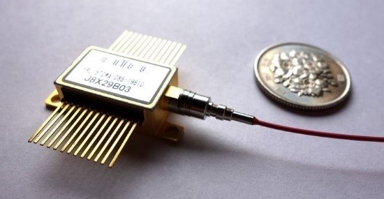 Fig.6. A commercial phase shift distributed reflector laser array, with 100\ coin for size reference. By courtesy of Furukawa Electric Co.